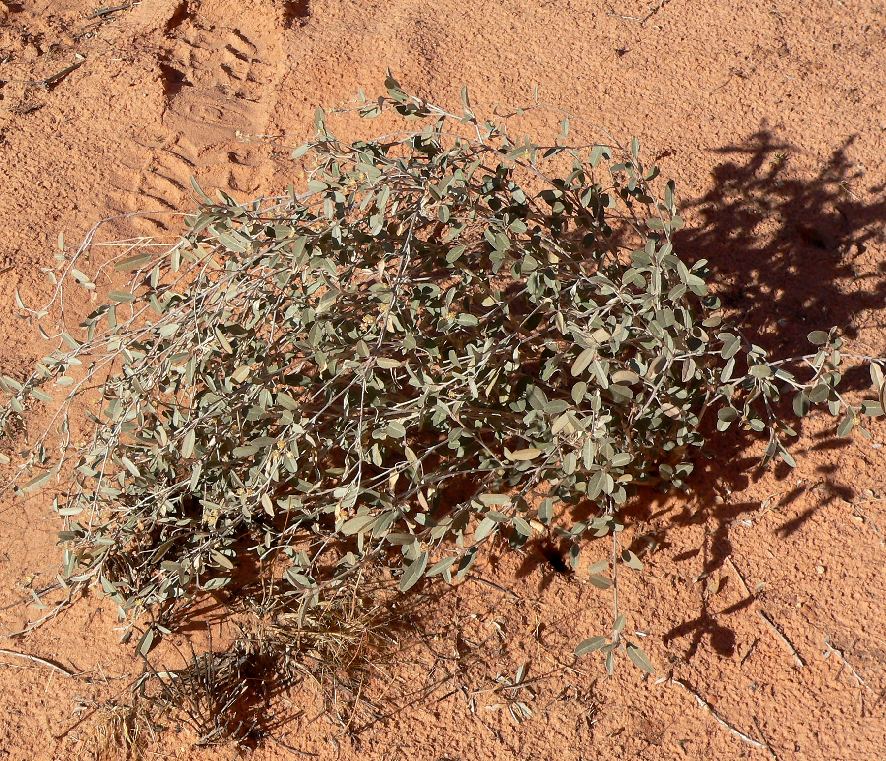 Croton californicus in the White Domes area, Valley of Fire, southern Nevada